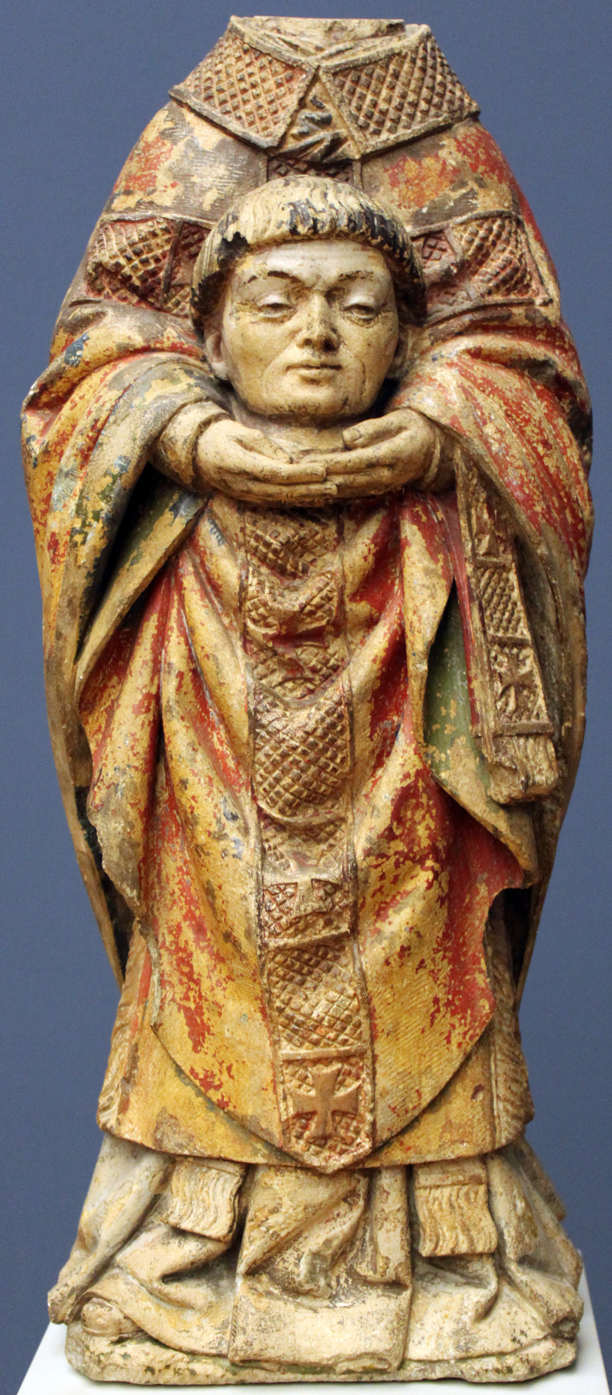 St. Dionysius of Paris; Antoine Le Moiturier (1425–1495) Alternative namesLe Moiturier, Pierre AntoineDescription French sculptor Date of birth/deathcirca 1425after 1495Work period1441–1495Work locationDijonAuthority control VIAF: 95868317 GND: 141015594 ULAN: 500030278 , 1460/70, Bodemuseum, Inv. 2/84